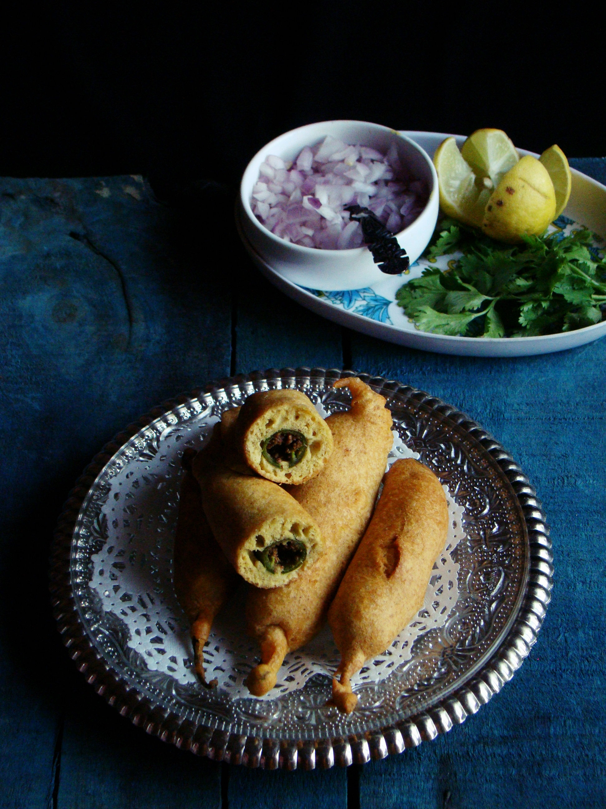 Guntur Special Street Food